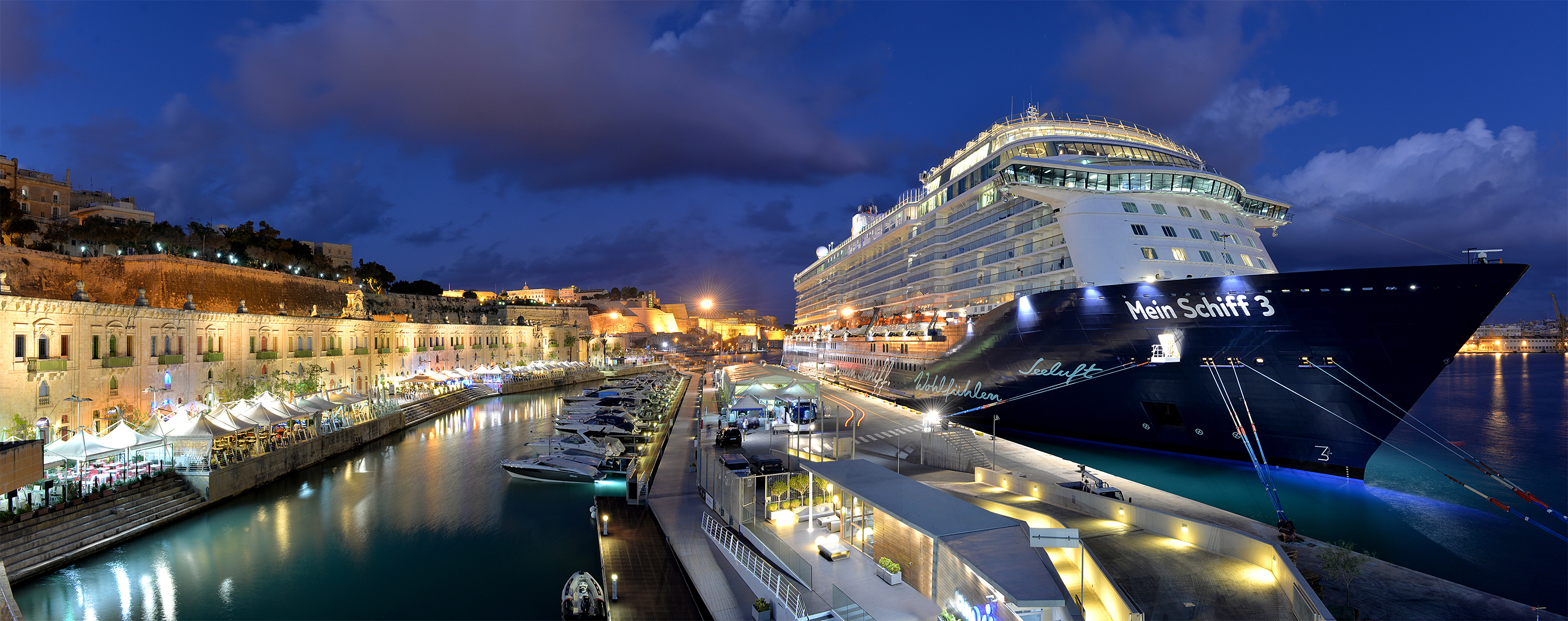 Valletta Cruise Port, Malta